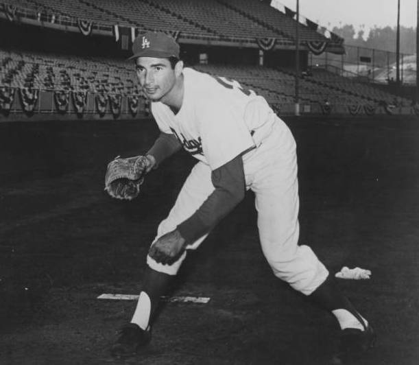 Title Portrait of the baseball player Sandy Koufax, ca.1950 Description Photographic portrait of the baseball player Sandy Koufax, ca.1950. Koufax poses in a left handed pitching position at the end of a throw. He faces the camera and looks past while standing on the mound and wearing a baseball mitt on his right hand and a lightly colored Los Angeles baseball uniform. The four tiers of an empty baseball stadium are visible in the background. Subject Koufax, Sandy; Los Angeles Dodgers Subject (adlf) sports facilities Subject (file heading) Recreation -- Baseball Subject (lcsh) Baseball Geographic subject (city or populated place) Los Angeles Geographic subject (county) Los Angeles Geographic subject (state) California Geographic subject (country) USA Coverage date circa 1950-06-01 Publisher (of the digital version) University of Southern California. Libraries Date created circa 1950-06-01 Type images Format (aacr2) 1 photograph : photoprint, b&w ; 26 x 21 cm. Format (aat) photographic prints photographs Contributing entity California Historical Society Accession number 42574 Call number CHS-42574 Microfiche number 1-90-327 Legacy record ID chs-m5247; USC-0-1-1-5355 Part of collection California Historical Society Collection, 1860-1960 Project USC Rights Public Domain. Release under the CC BY Attribution license -- -- Credit both “University of Southern California. Libraries” and “California Historical Society” as the source. Digitally reproduced by the USC Digital Library; From the California Historical Society Collection at the University of Southern California Physical access Send requests to address or e-mail given Repository name USC Libraries Special Collections Repository address Doheny Memorial Library, Los Angeles, CA 90089-0189 Repository Filename CHS-42574 Archival file chs_Volume148/CHS-42574.tiff